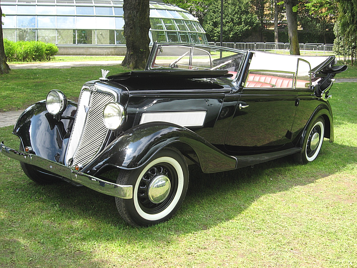 Subject:Wanderer W50 Cabriolet 2-Sitzer Date:April 27th, 2008 Event:Concorso d’Eleganza”Villa d’Este” 2008 Place/Country: Cernobbio (CO), Italy I release all rights in the public domain.